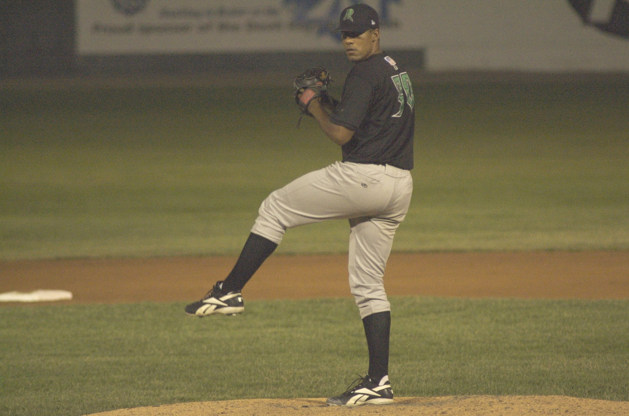 Dayton @ Southwest Michigan 082506